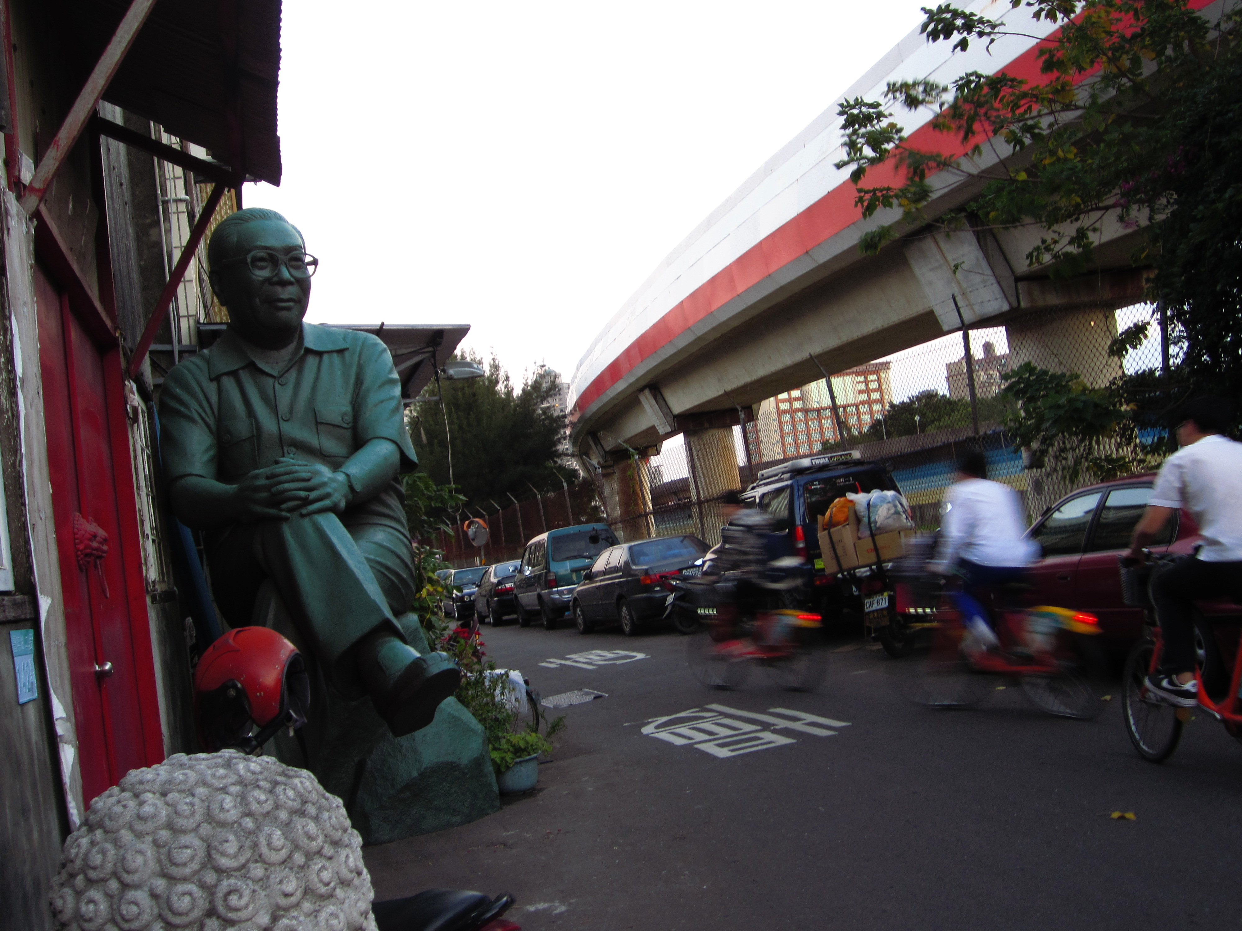 Chiang Ching-kuo by Ken Marshall